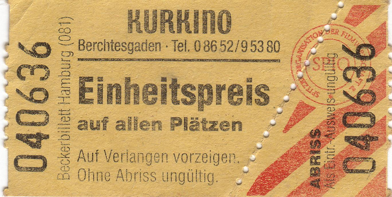 Ticket (unseparated) for STIBA performance (Cinema)